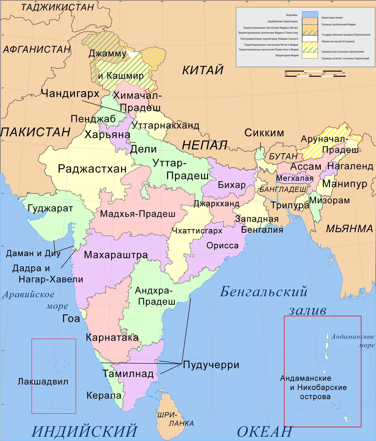 Map of India with state borders